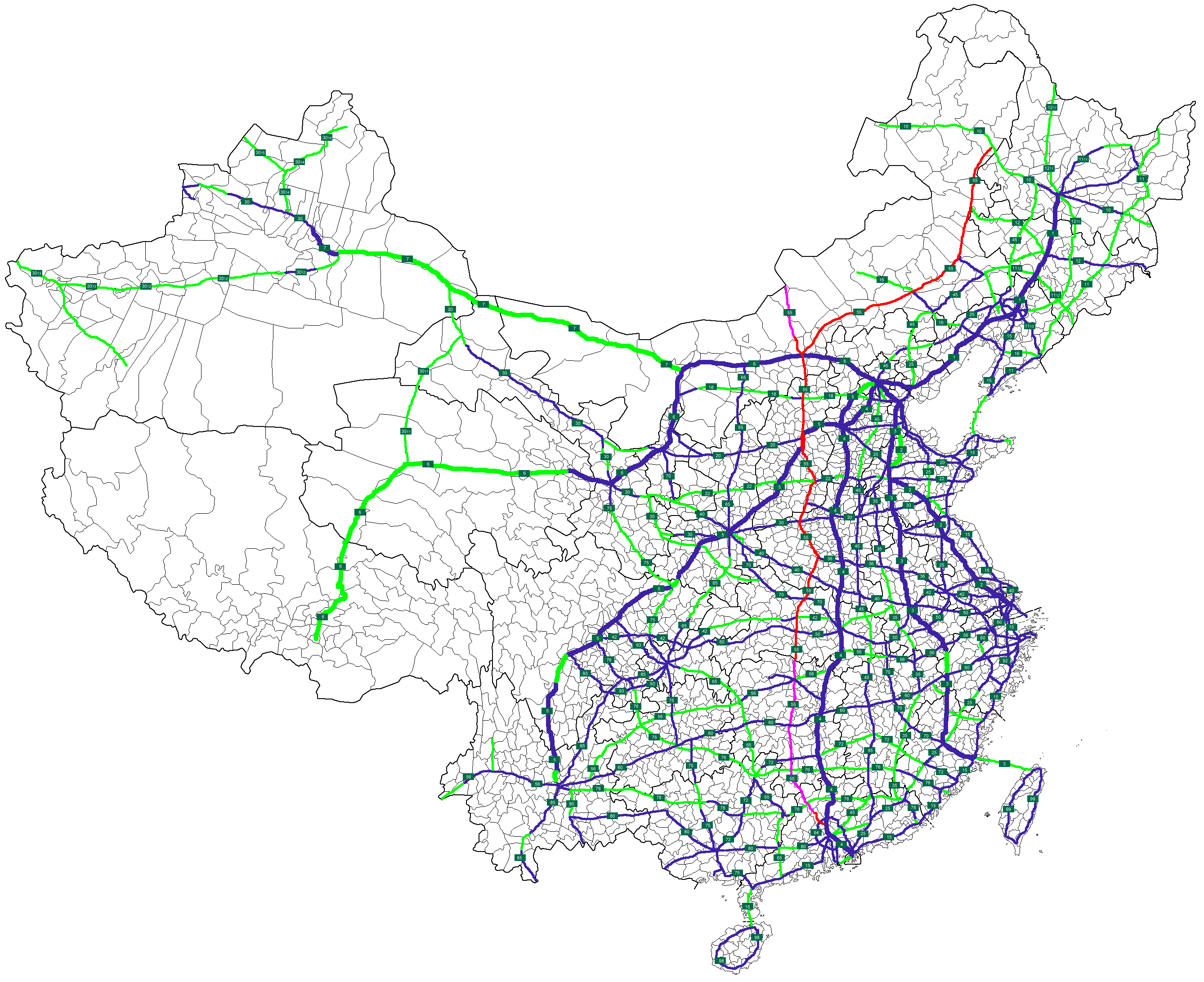 Source file(Map of NTHS Expressways of China.png) was uploaded ASDFGH at en.wikipedia. Later version(s) were uploaded by Nima Farid at en.wikipedia. Modification for NTHS Expressway G55 is my own work.